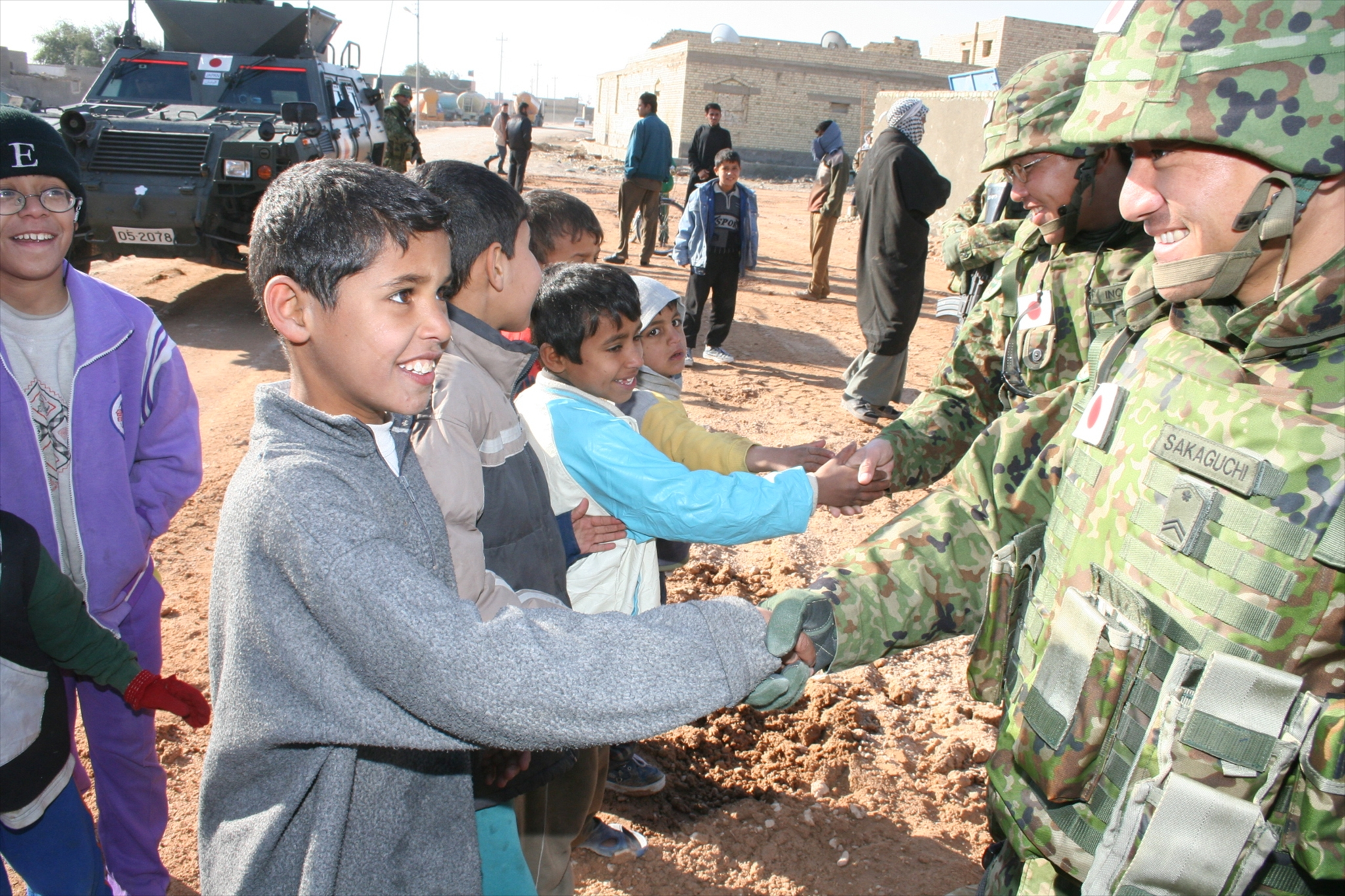 Title 16 シャッファＰＨＣで集まってきた子供達と握手_R.JPG Album 国際平和協力活動等（及び防衛協力等） イラク人道復興支援特措法に基づく活動